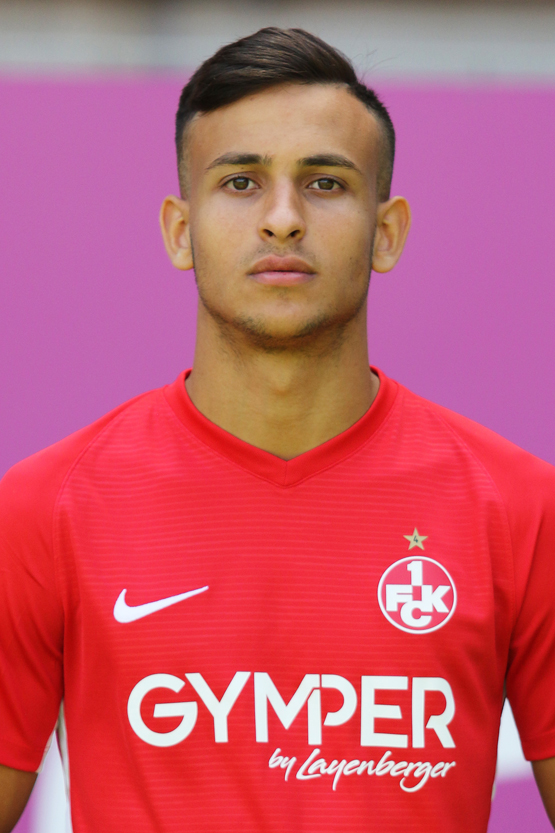 Anas Bakhat (Nr. 36)